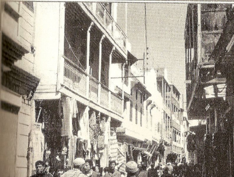 Mellah (Jewish quarter) of Meknes Morocco